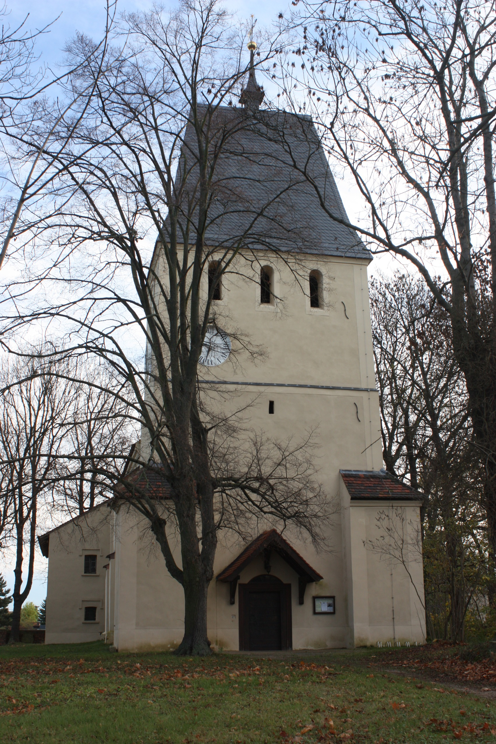 Zschortau (Rackwitz), the village church